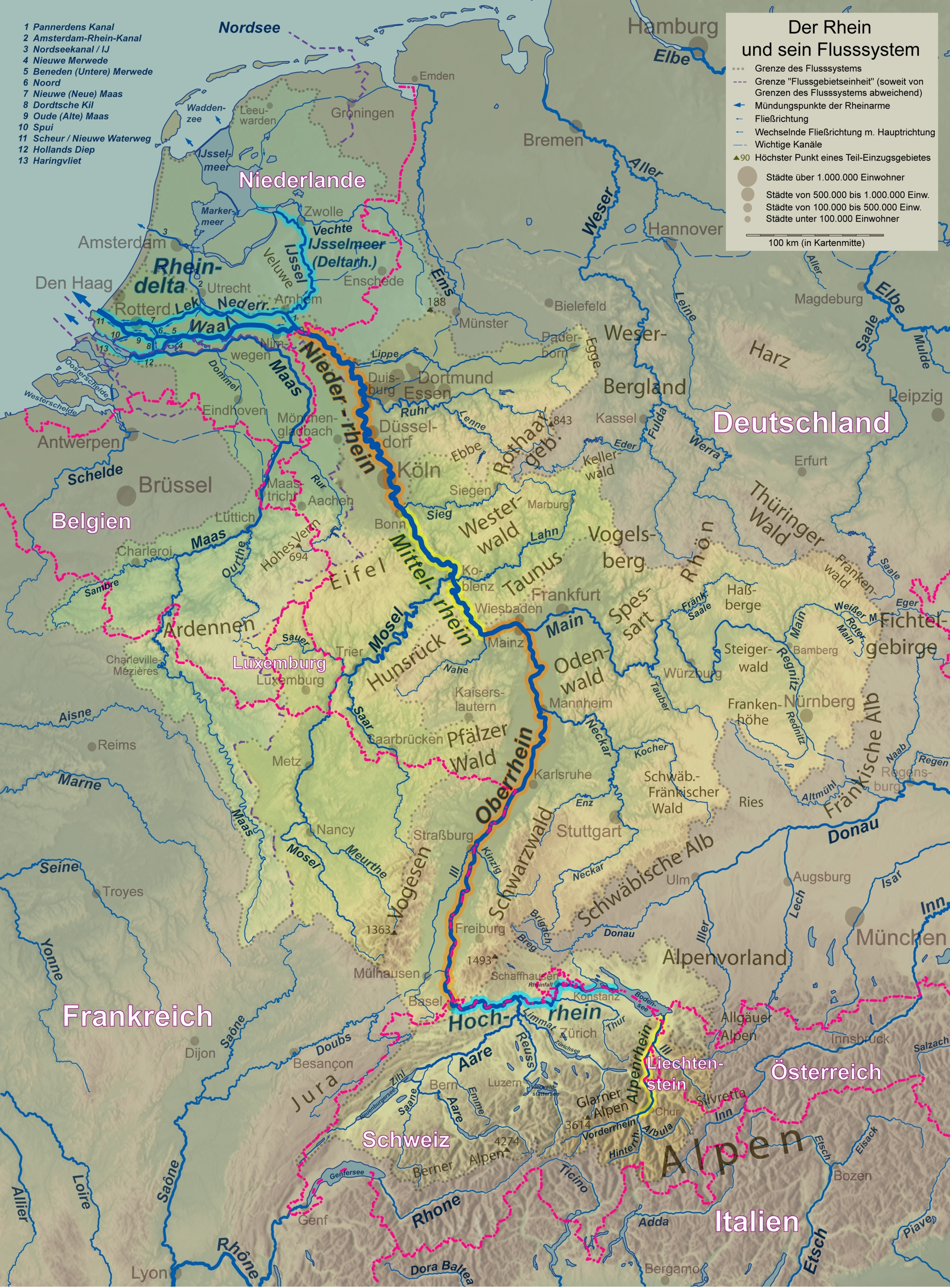 Map of the Rhine course and it's major tributaries